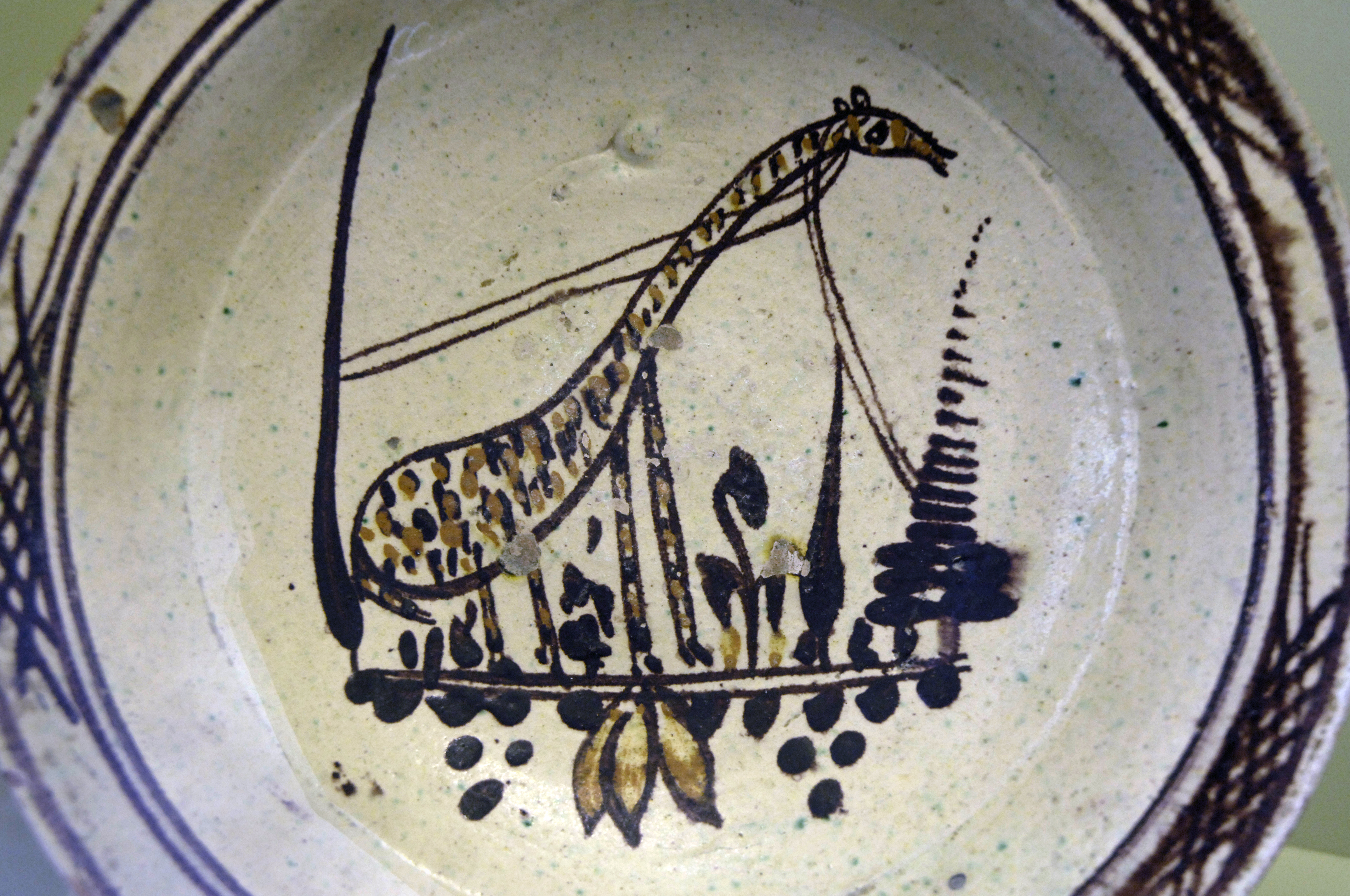 Çanakkale ware, 2nd half 19th century.